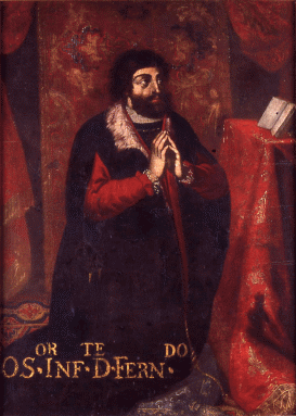 Infante Ferdinand of Portugal, Duke of Viseu and Beja (1433-1470)